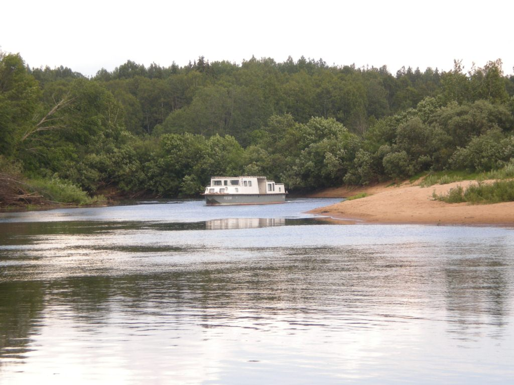 Zelezo 2